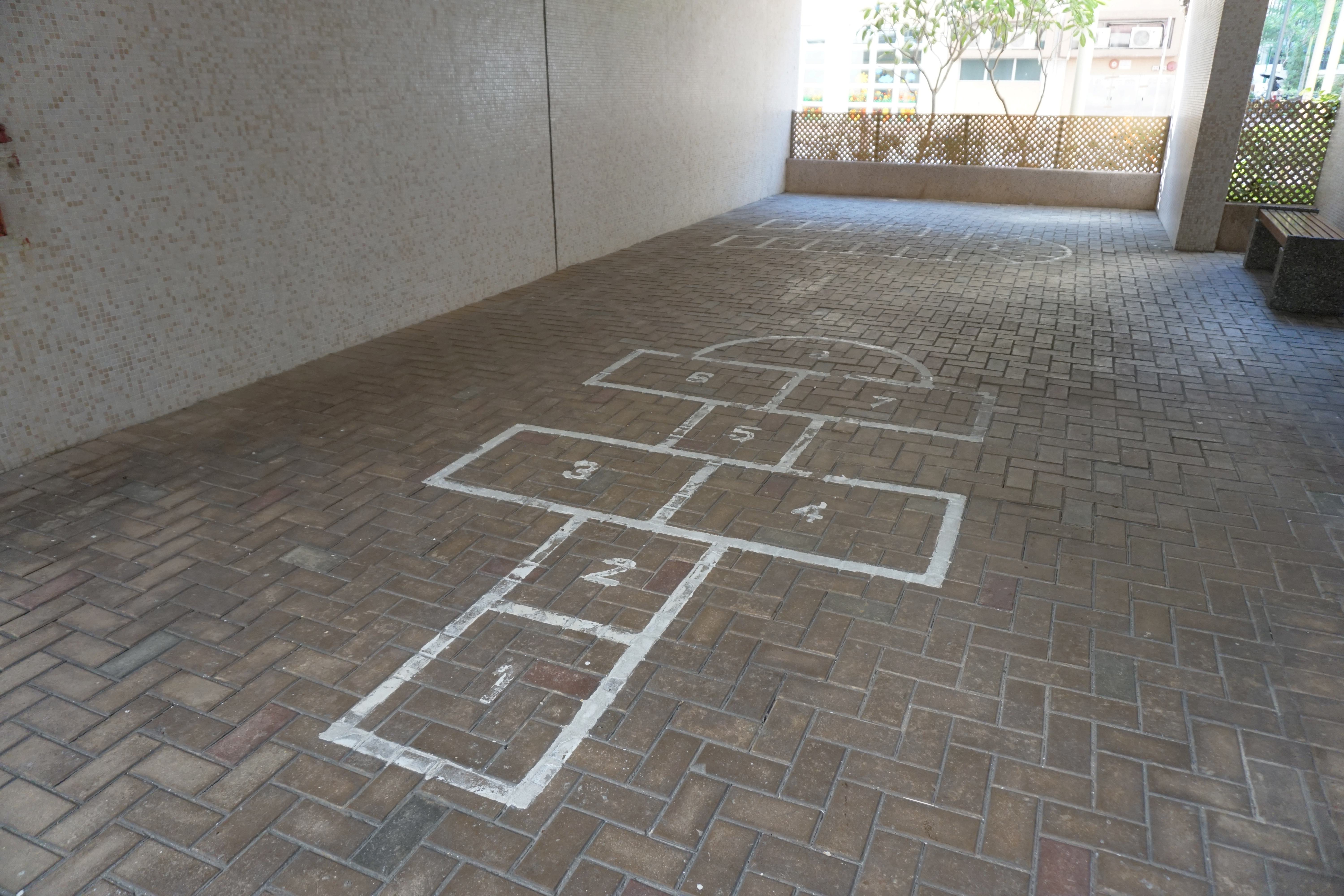 Bauhinia Garden in Tseung Kwan O, Hong Kong.